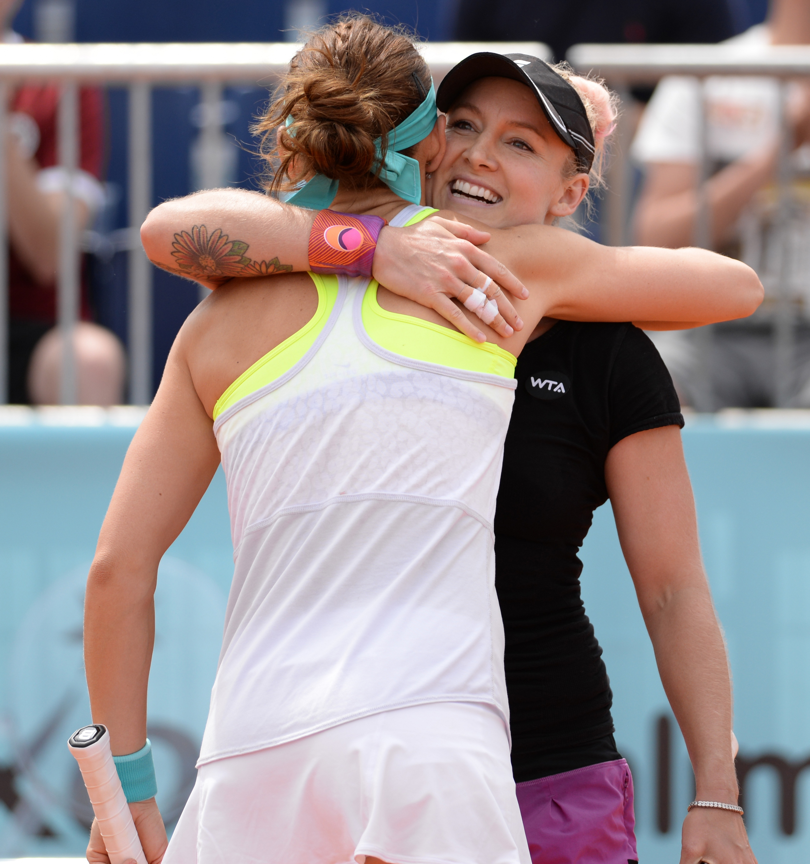 Bethanie Mattek-Sands & Lucie Safarova at the Mutua Madrid Open 2015